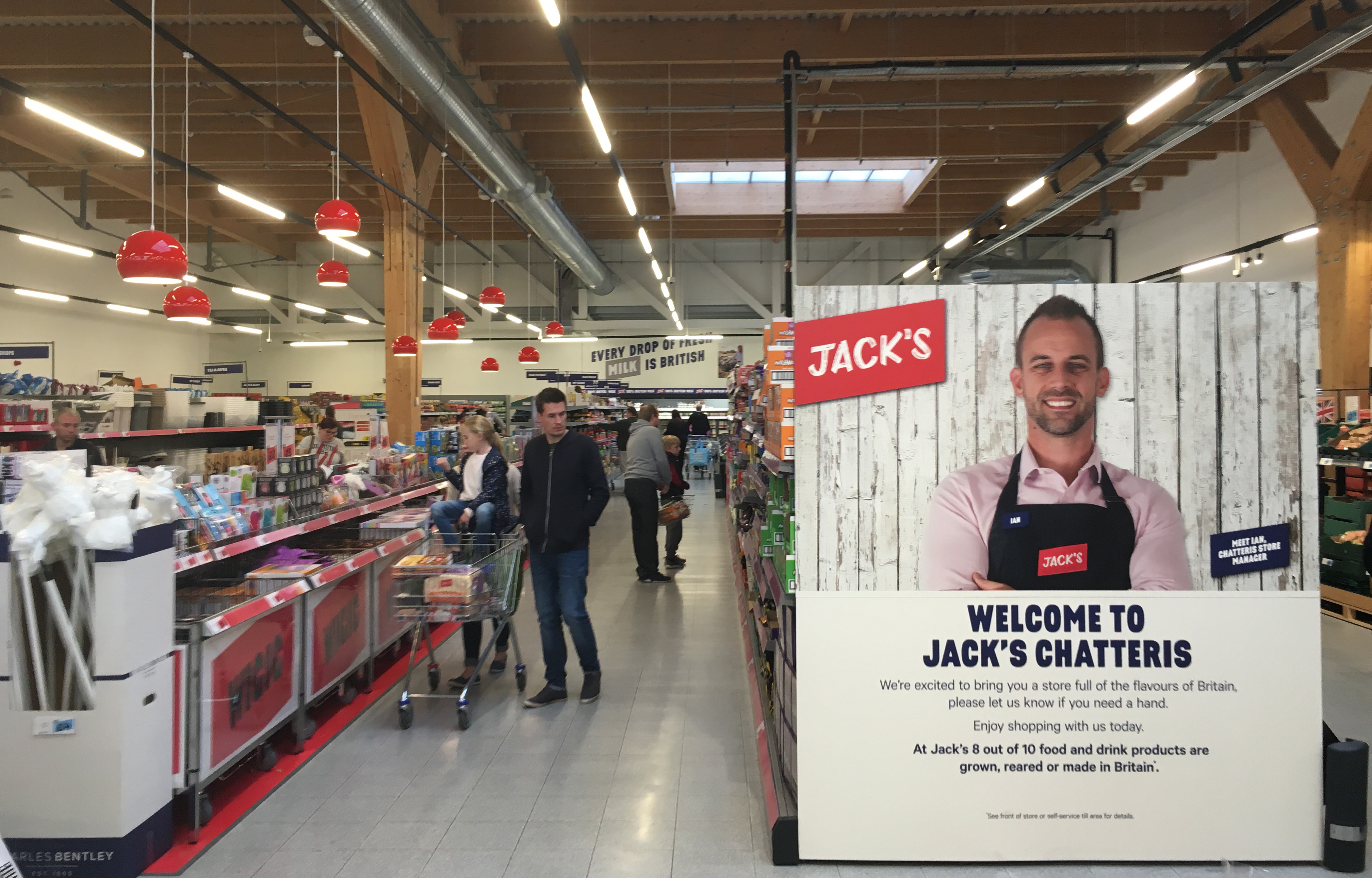 Interior of Jack's supermarket in Chatteris, Cambridgeshire. Jack's is a budget supermarket brand owned by Tesco, designed to compete with lower-priced rivals. The Chatteris was the first store using this brand to open in September 2018 and hosted the press launch.